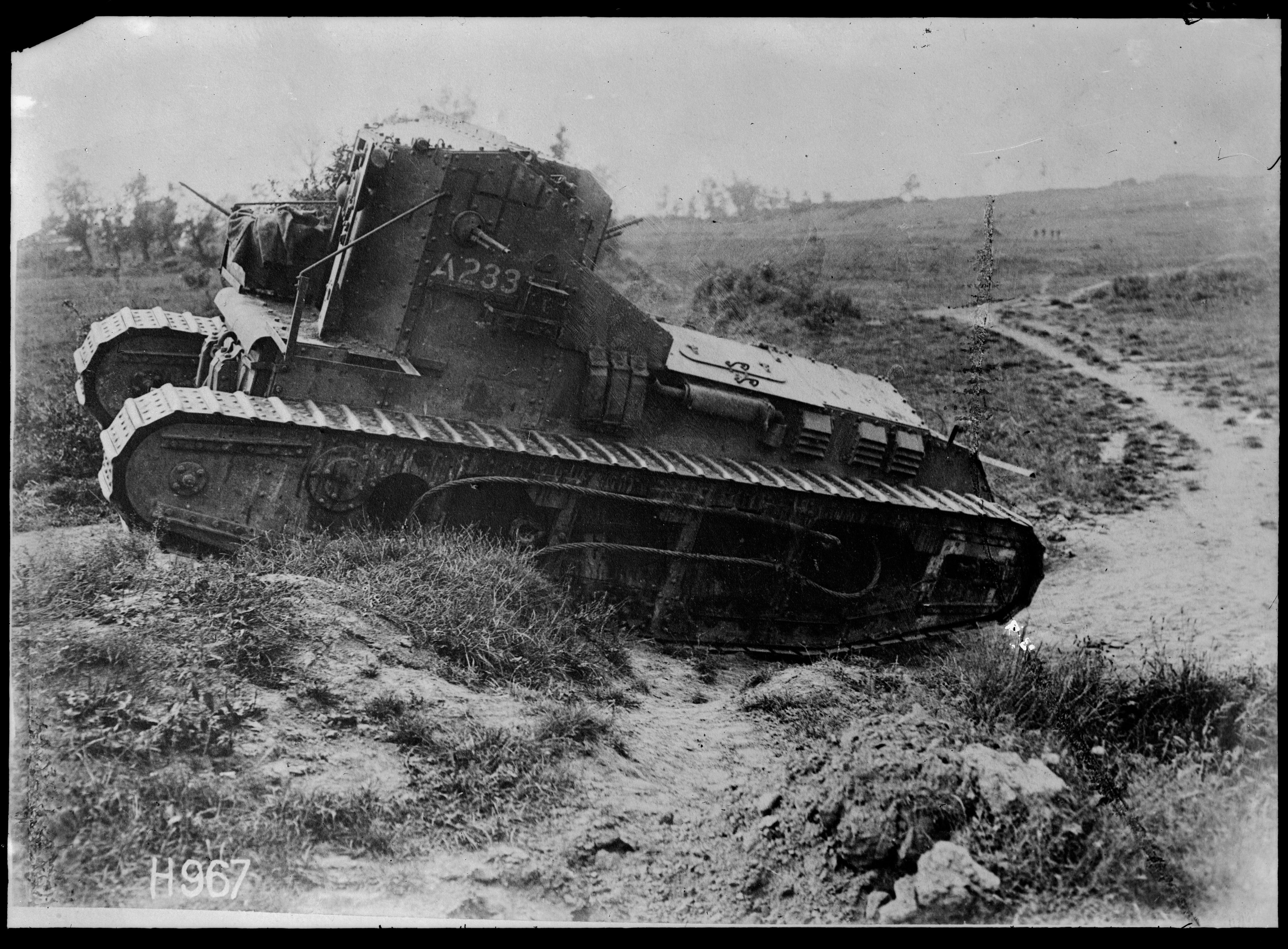 A close view of a Whippet tank crossing a trench near Grevillers, France, during World War I. It has A2333 painted on its turret. The tank descends down a slope of fairly dry ground. Photograph taken August 1918 by Henry Armytage Sanders.